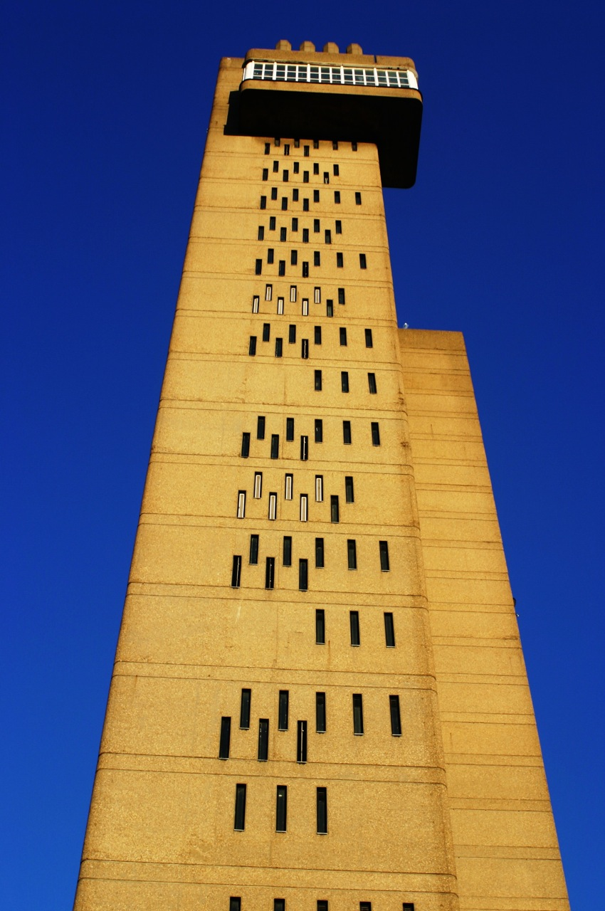 Trellick Tower